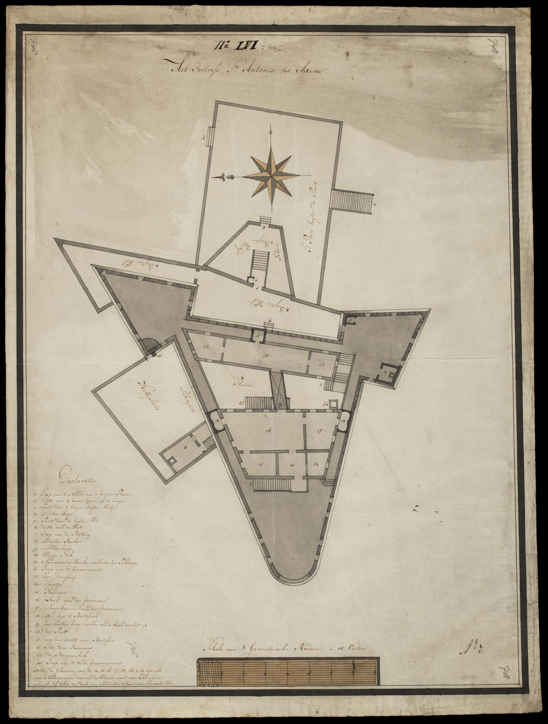 Floor plan of Fort St. Antonie at Axim. Title in the Leupe catalogue: Het Fortress St. Antonie tot Axim. Het Fortress St: Antonie tot Axim. Notes on reverse: no. 10 reg. 8 / 449 [stamped in bold figures on a small label]. Key: Declaratie / 1. Trap van 't strand nae 't buyten Plein. / 2. ditto nae 't boven crom, of de Tuyn. / 3. Poort door 't kleyne buyten Werkje. / 4. Schilder Huys / 5. Poort door de buyten Wal / 6. ditto van de Wagt. / 7. Trap nae de Battery / 8. Soldaeten Keuken / 9. Schilder huys / 10 Vlagge Stok / 11. 's Gouverneurs Keuke, waeronder Een Pakhuys / 12. Trap nae 't Gouvernement / 13. Een Doorgang / 14. Spintje / 15. Kaamer / 16. Zaal van den Gouverneur / 17. Slaap kaamer van den Gouverneur / 18. _ 18. _ zyn 2 Bortessies / 19. Een houten brug, welke van de zaal overlegt op / 20. Een Platt / 21. Nog Een Zoort van Bortessie / 22. & 23 twee Kaamers / 24. de Reegen-bak / 25 Trap nae 't oude Gouvernement / Nota. de Gebouwen van 13, 14, 15, 16, 17, 20,22 & 23 zyn alle van 3 Verdiepingen, waervan de onderste meest voor Pakhuysen gebruykt, de tweeden ten deele van Bedienten & Guarinisoen bewoont word. Bottom right: No: 7. Top centre: 17 LVI. Inscribed in various places on the chart: 748 [in pencil].